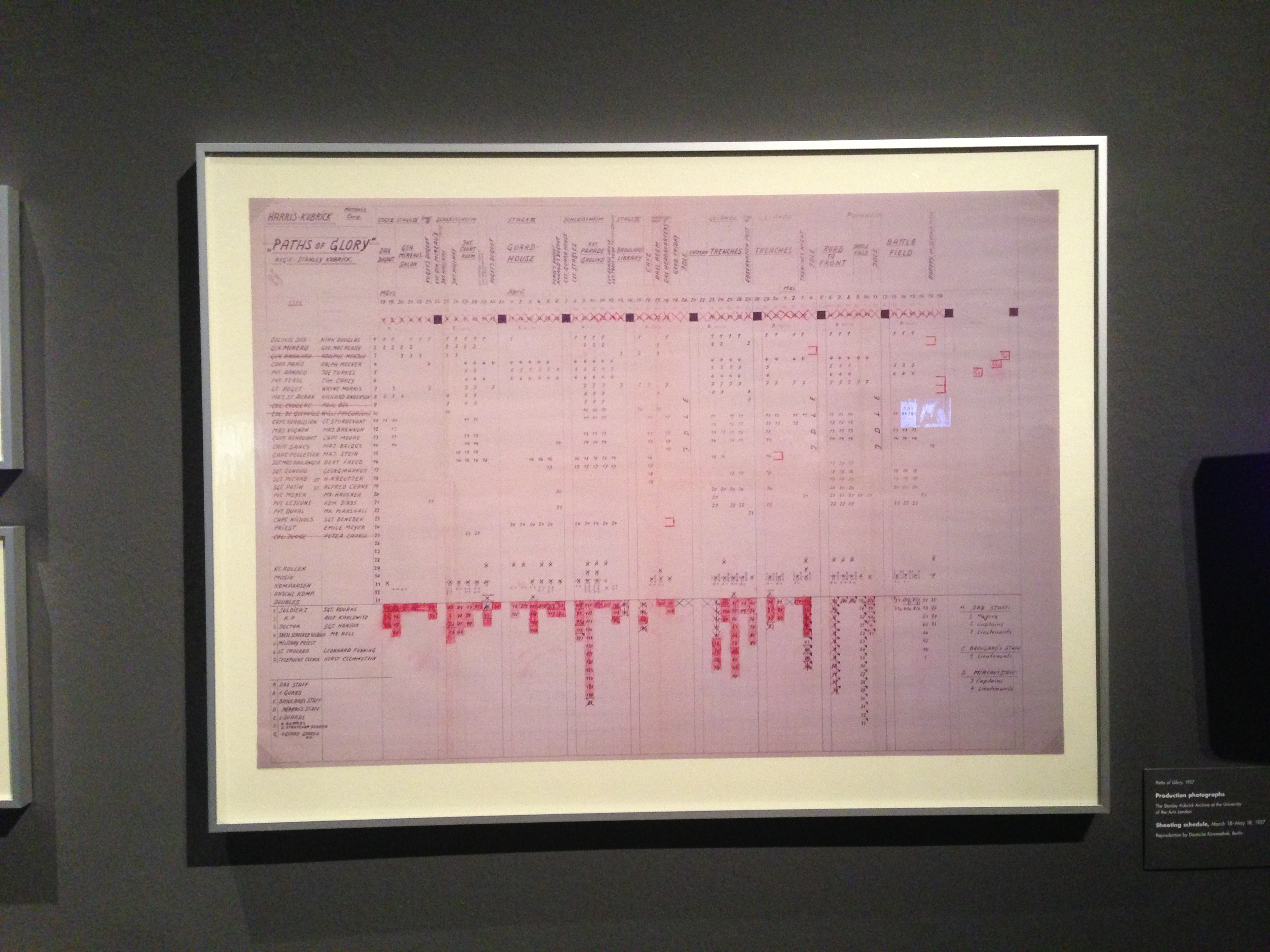 Stanley Kubrick exhibit at Los Angeles County Museum of Art.